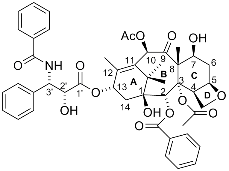 Paclitaxel, structural formula.